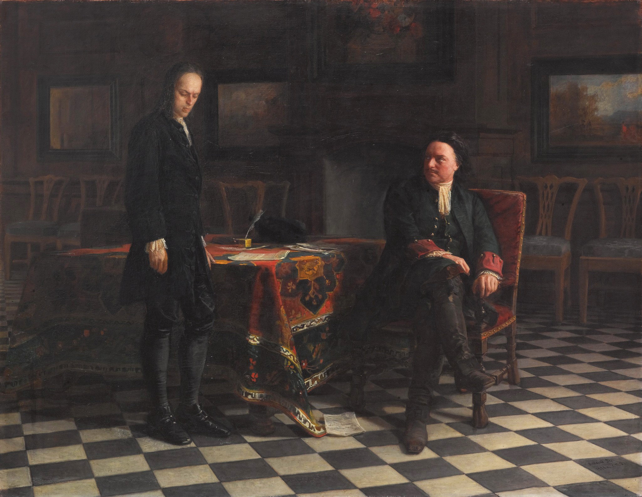 Peter the Great Interrogating the Tsarevich Alexei Petrovich at Peterhof. Painted by Nikolai Ge in 1871. Ge created two identical paintings: one purchased by Pavel Tretyakov and another one by Russian Tzar Alexander II. The first is now exhibited in the Tretyakov gallery in Moscow, the second in the Russian Museum in Saint Petersburg.